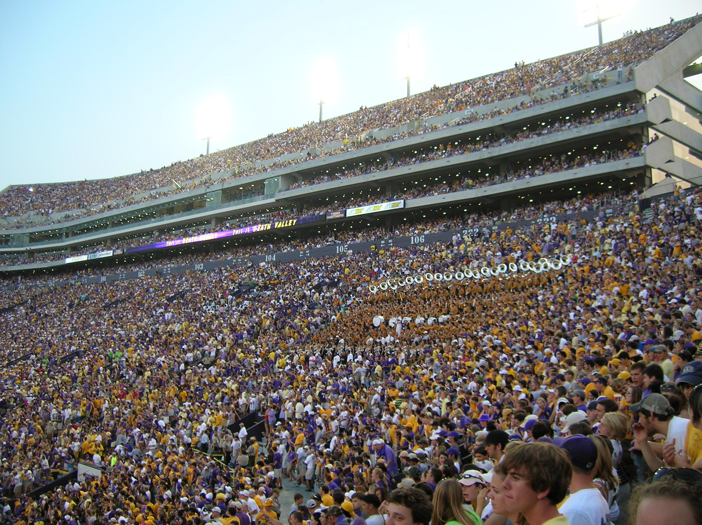 View of the West side of Tiger Stadium. Louisiana–Lafayette Ragin' Cajuns vs LSU Tigers, September 2, 2006.